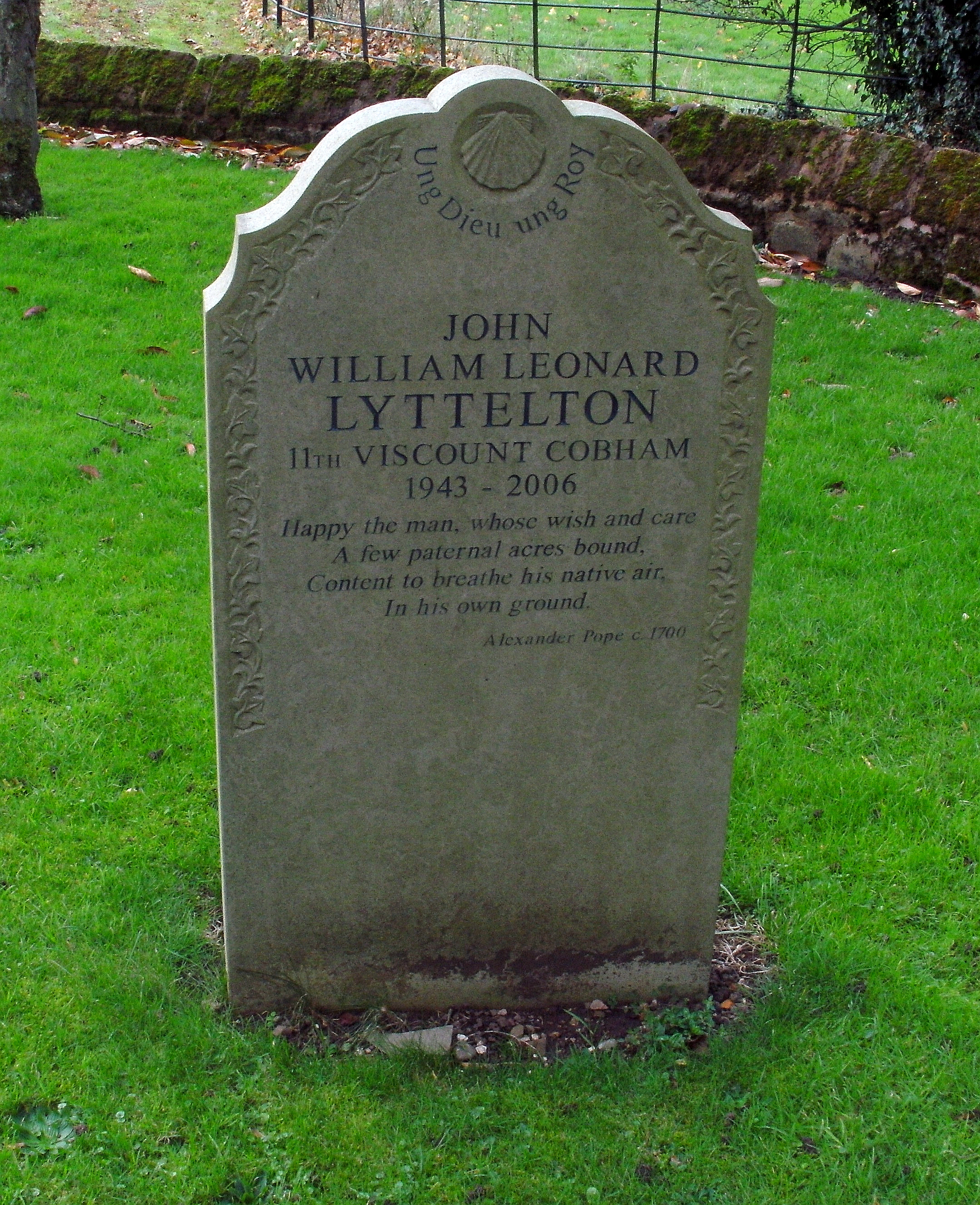 Hagley, Worcestershire, St John the Baptist Church: Lyttelton plot, grave of John Lyttelton, 11th Viscount Cobham (1943–2006).